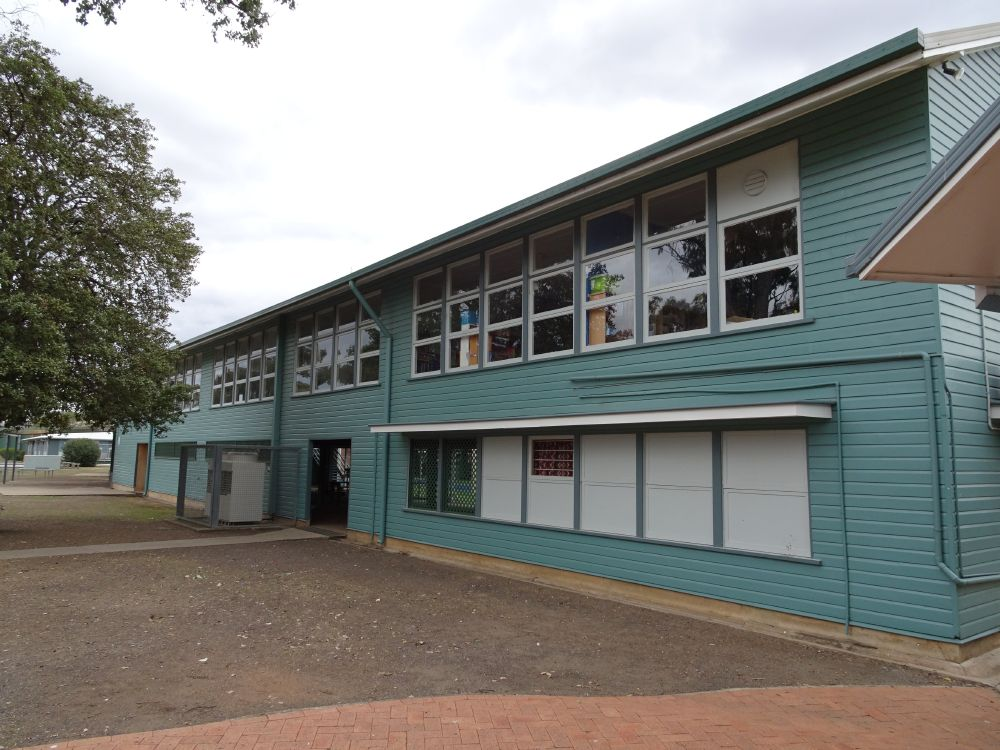 Block D, south side looking northwest